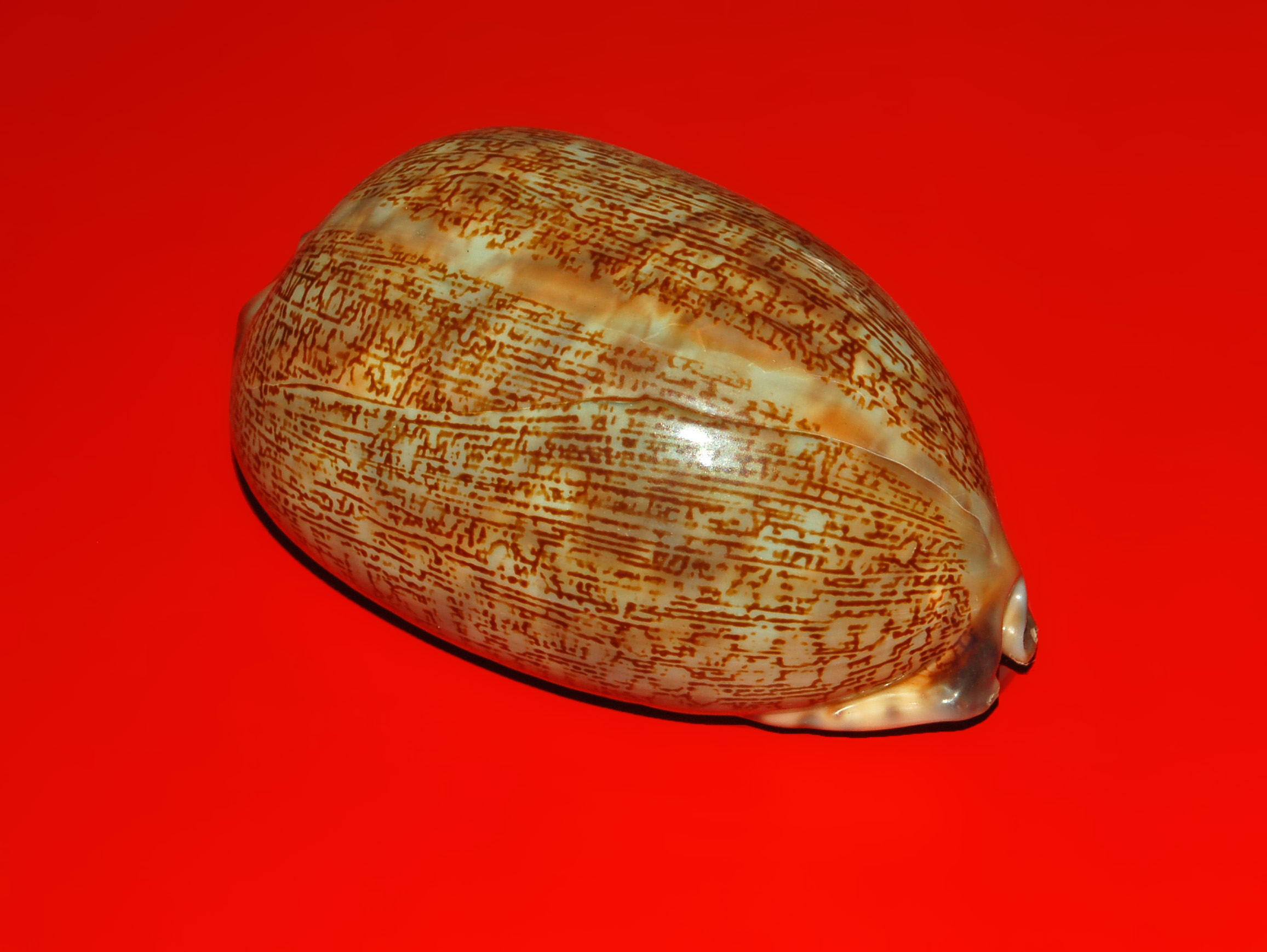 Mauritia eglantina